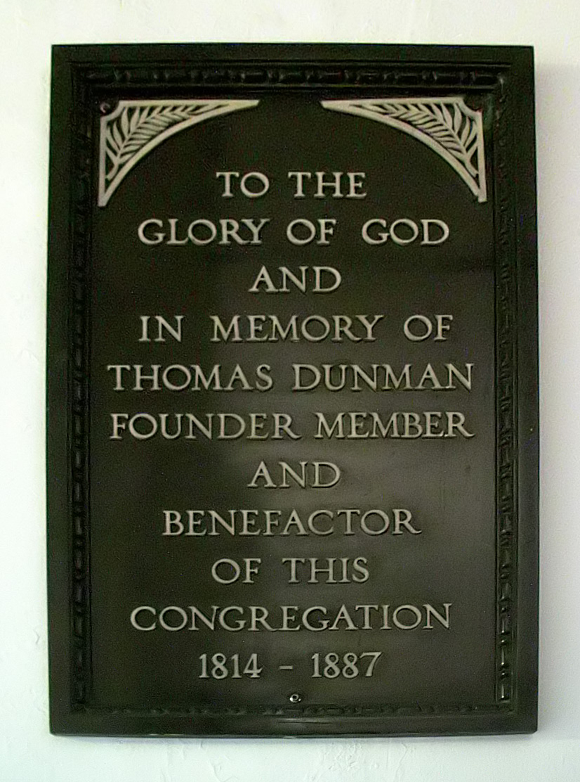 A wooden plaque commemorating Thomas Dunman (1814–1887) in Orchard Road Presbyterian Church in Singapore.